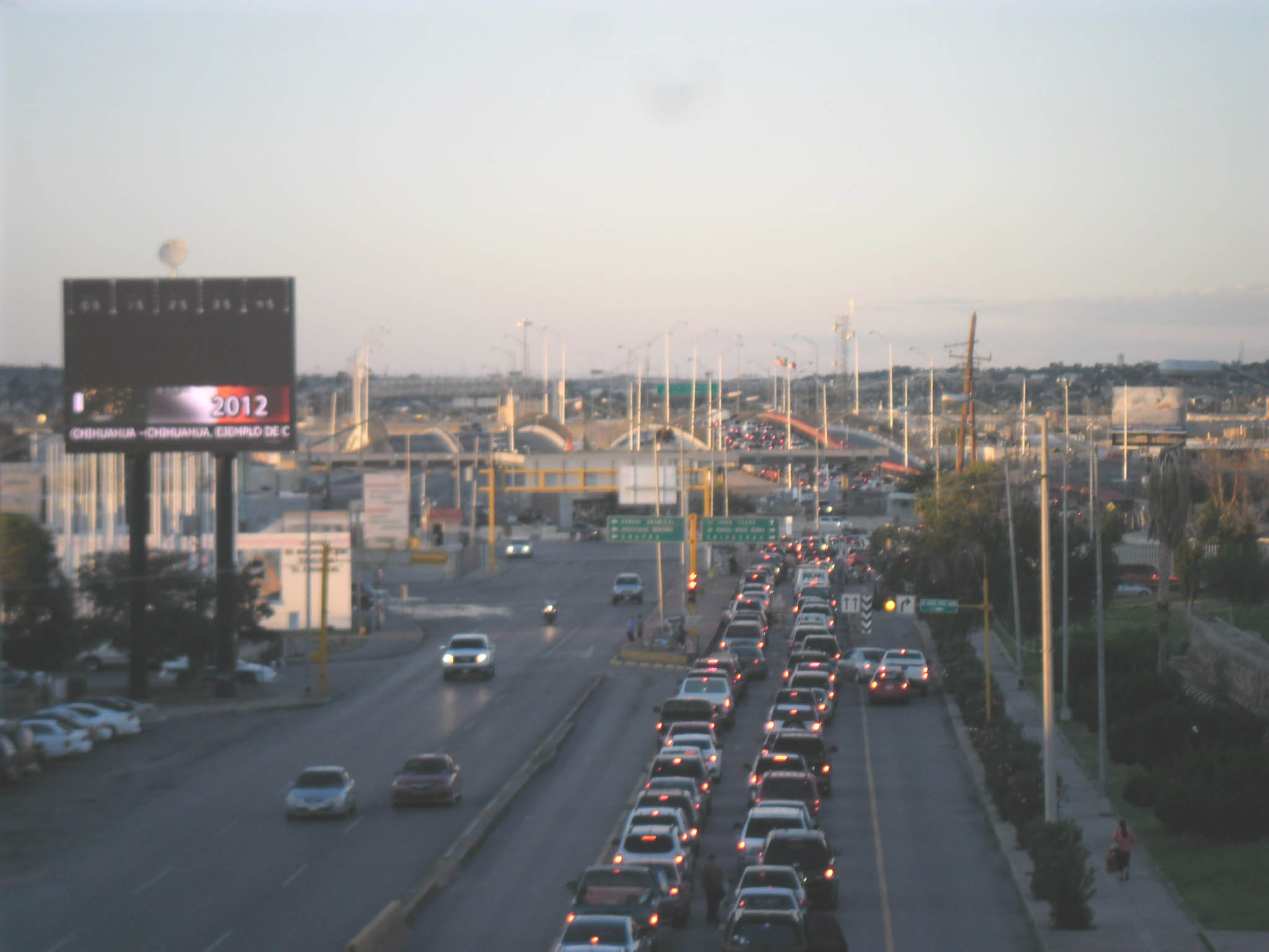 Intl Bridge Juarez